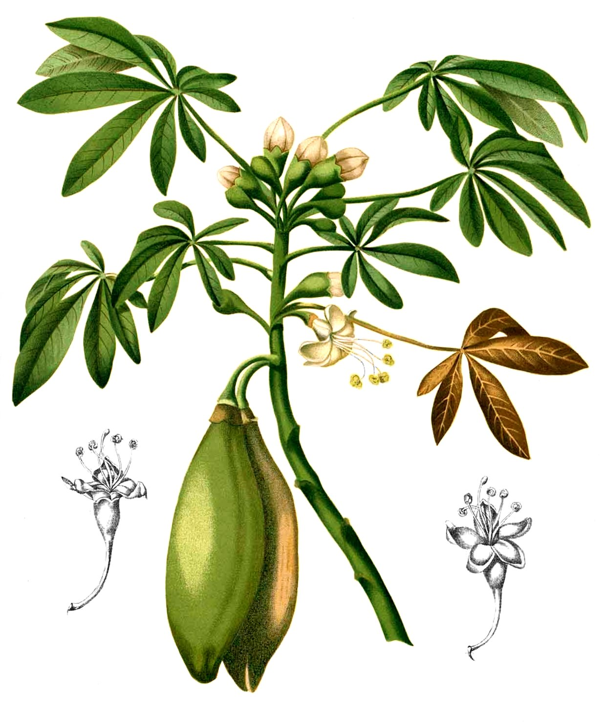 Plate from book